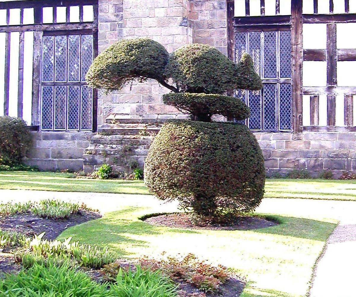 Photograph of squirrel topiary taken at Rufford Old Hall, Lancashire, England, by me, on 11 April 2007.